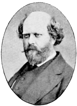 Image scanned from the book "Svenskt Porträttgalleri XX - Arkitekter, Bildhuggare, Målare m.fl. " ("Swedish Portrait Gallery XX - Architects, Sculptors, Painters, ") published 1901